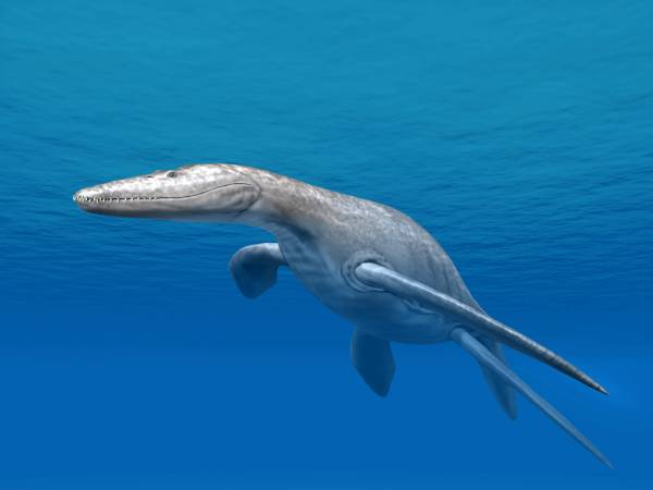 Life reconstruction of Simolestes vorax